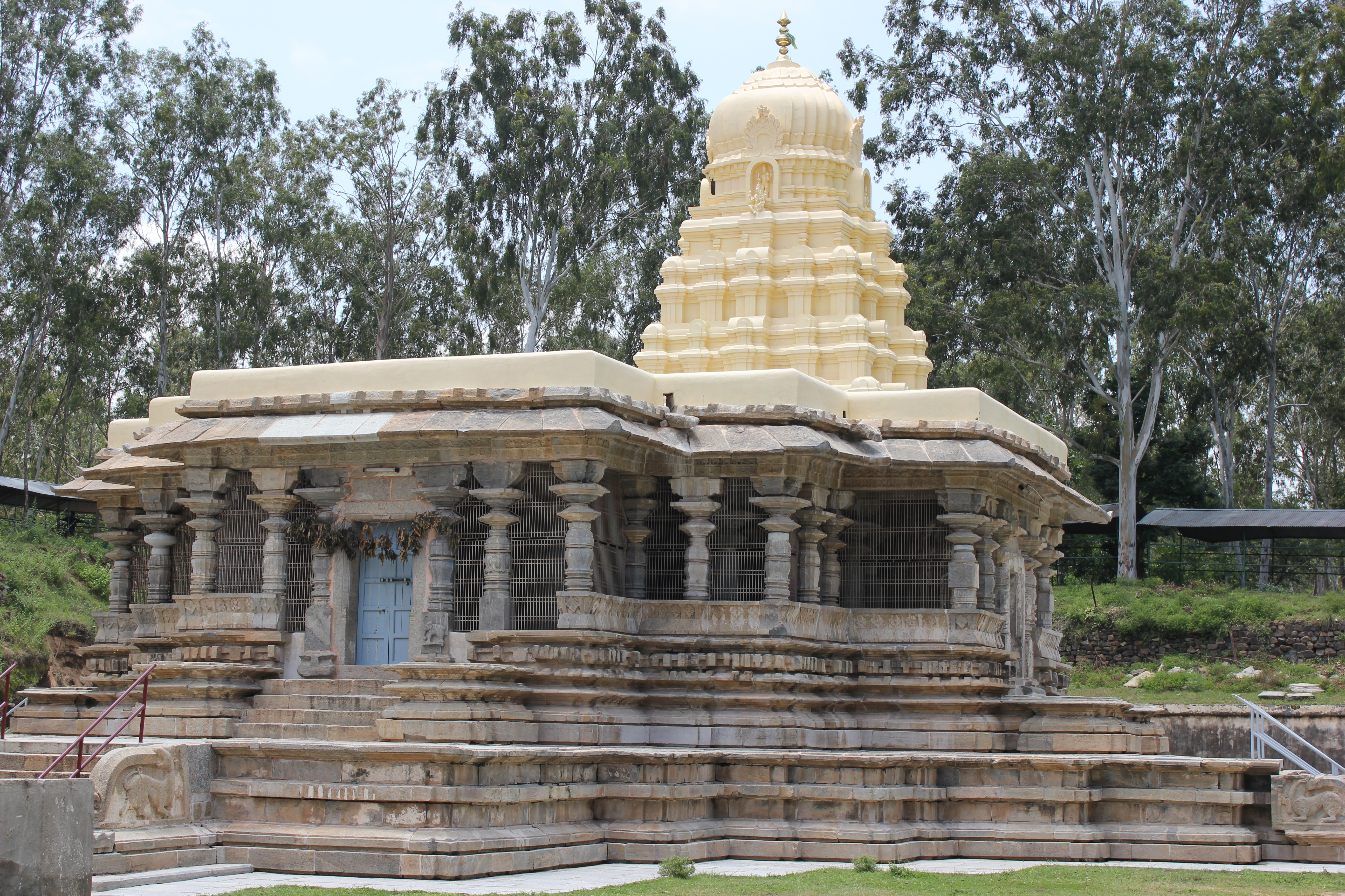 The Kirtinarayana temple was built by Hoysala king Vishnuvardhana around 1117 A.D. to celebrate his victory over the Chola dynasty in the famous battle of Talakad in about 1115 A.D.